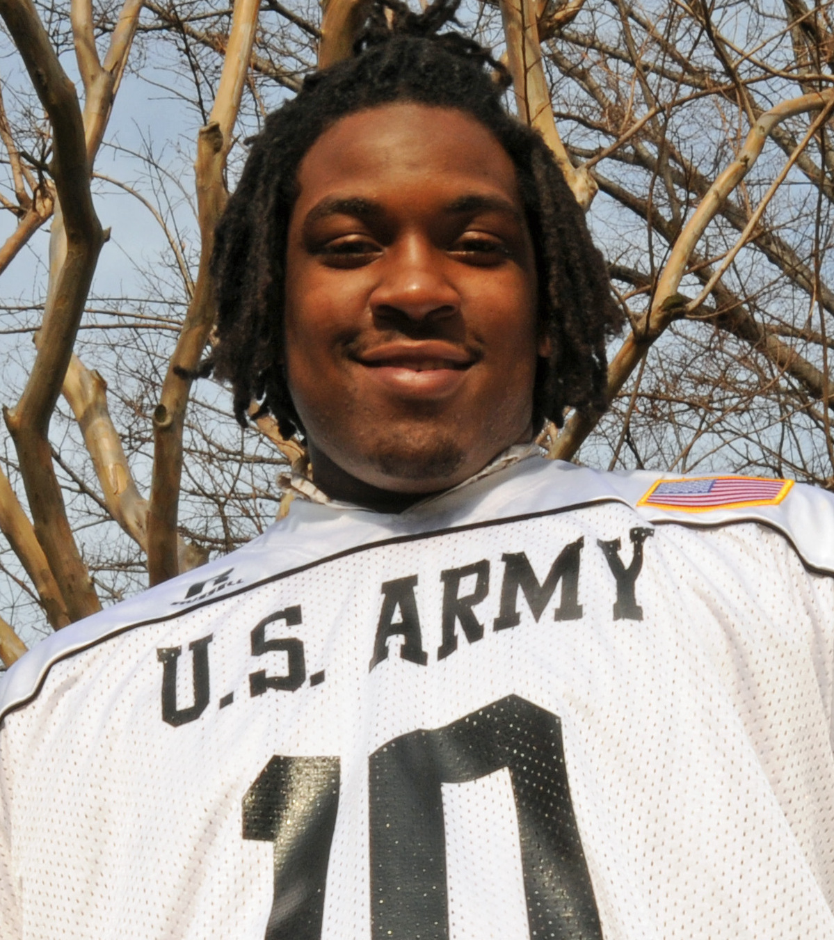 All-American Bowl players Dillon Baxter and Seantrel Henderson pose outside the Pentagon with Army NCO of the Year Sgt. 1st Class Aaron Beckman. See more at Army All-American Bowl stars visit Pentagon